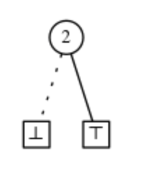 Elementary family in ZDD